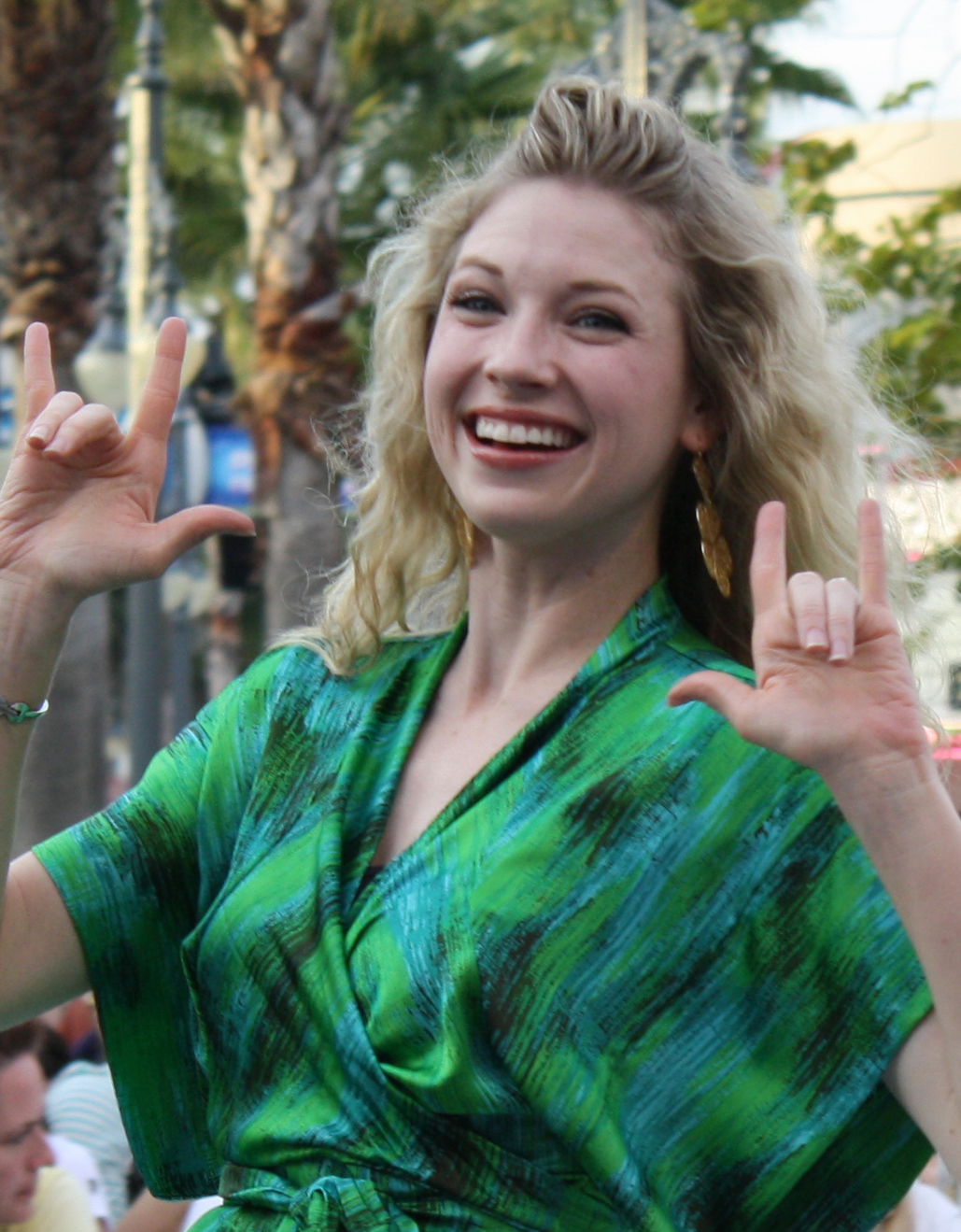 Brooke White, finalist American Idol.